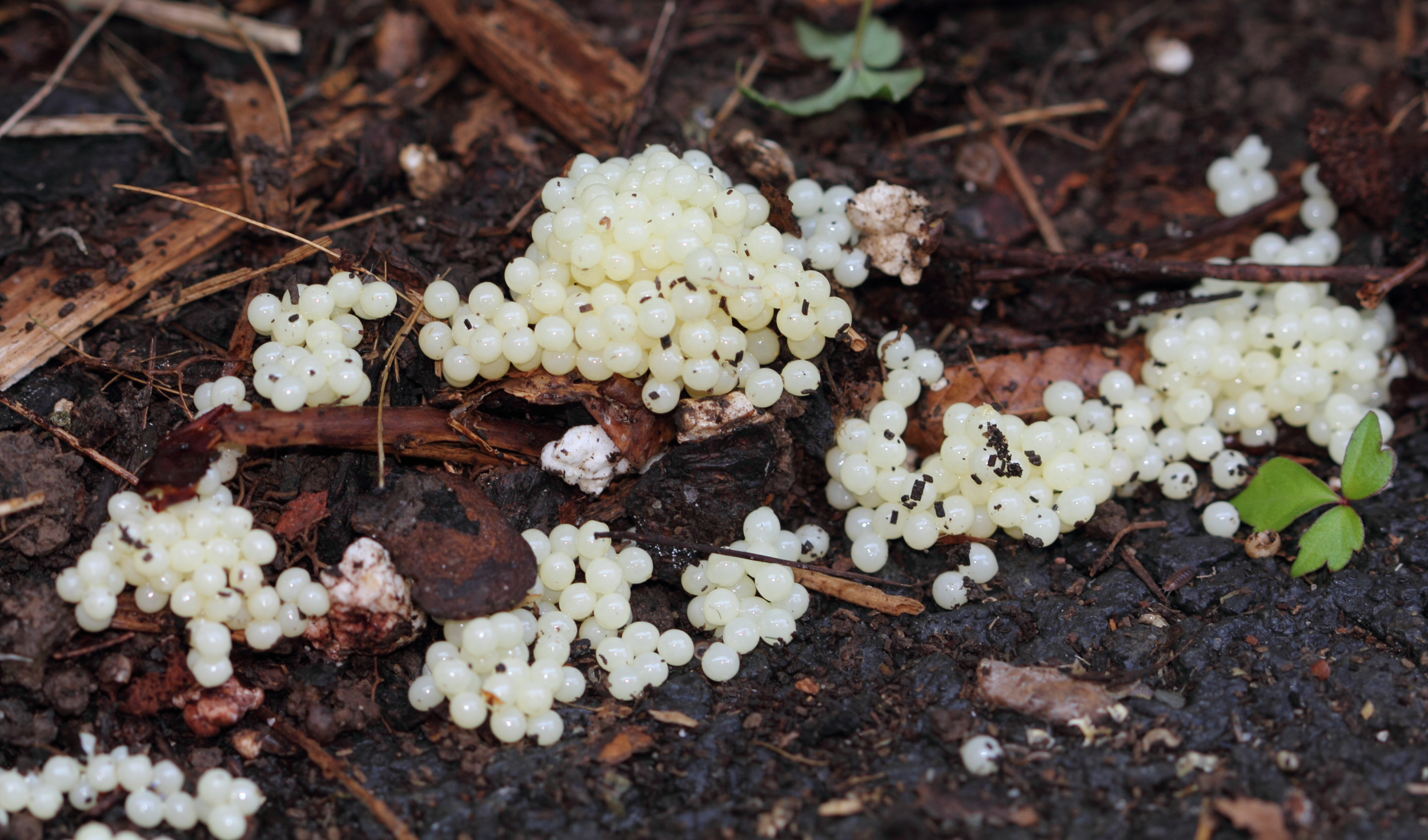 Eggs of the European red slug, found under a wood pile